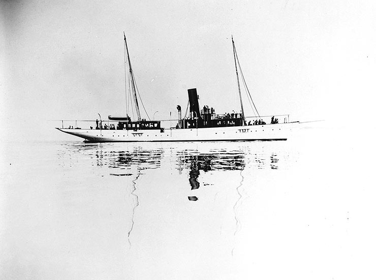 The yacht Legonia II, prior to her service as the United States Navy patrol vessel.